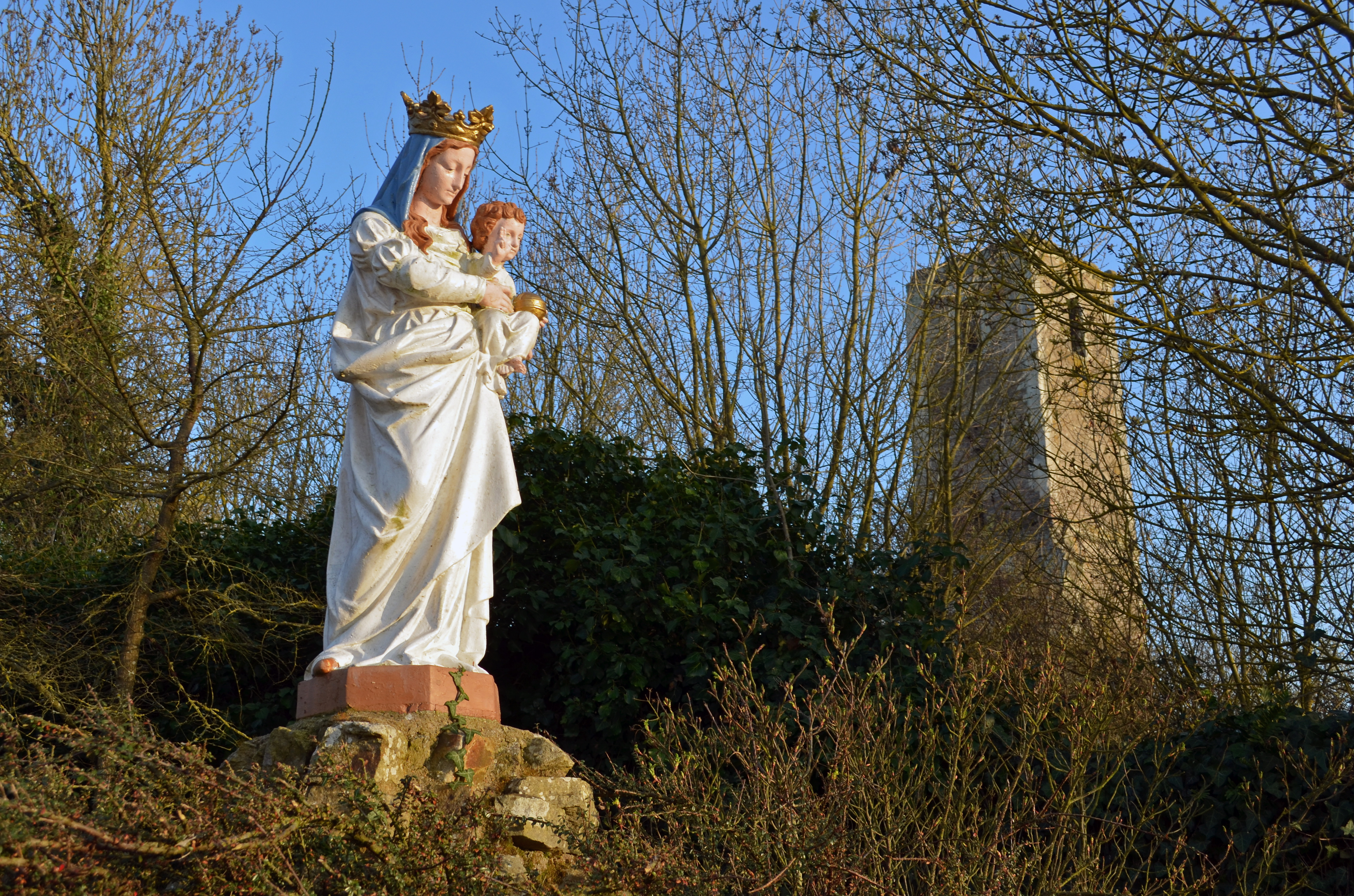 Buzay abbey - Rouans - Loire-Atlantique